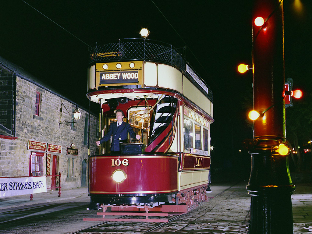 London County Council car number 106, a 'B' class Electric Railway & Tramway Carriage Works double deck four wheel car with a The J.G. Brill Company 21E truck, two Westinghouse 220 42 horse power motors and Westinghouse T2C controllers with an Electric Railway & Tramway Carriage Works open top rear entrance body built 1903 en route to Town End terminus at the National Tram Museum, Crich. Sunday 28th August 1983